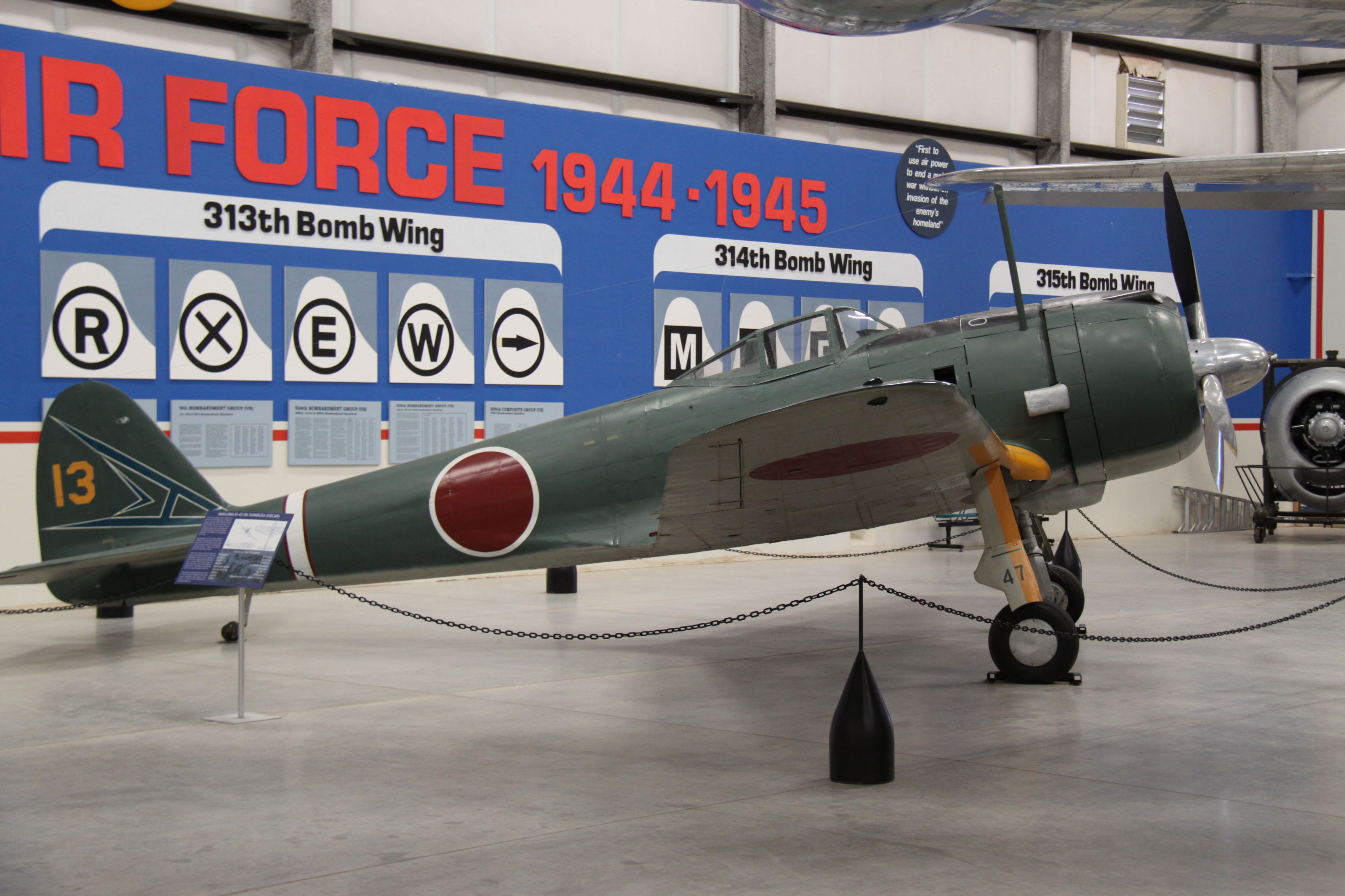 At Pima Air & Space Museum